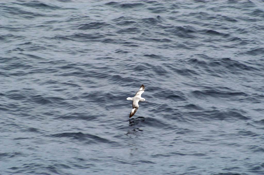 Picture taken sailing through the Drake Passage